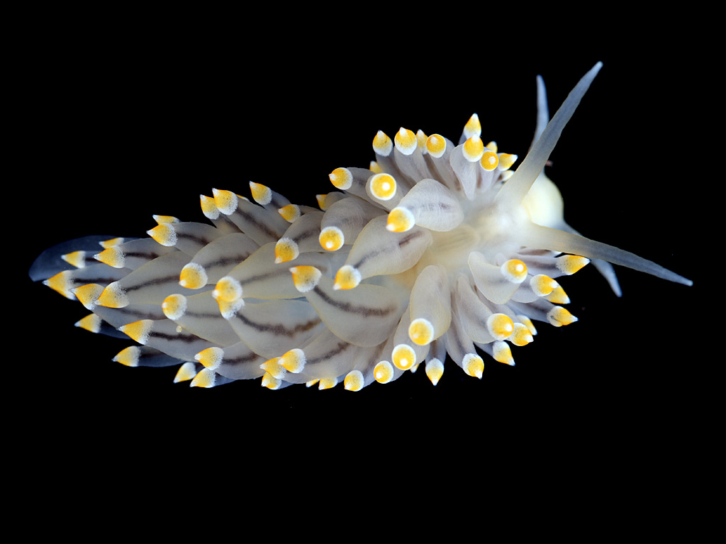 The nudibranch Eubranchus tricolor, Firth of Lorne, Scotland.